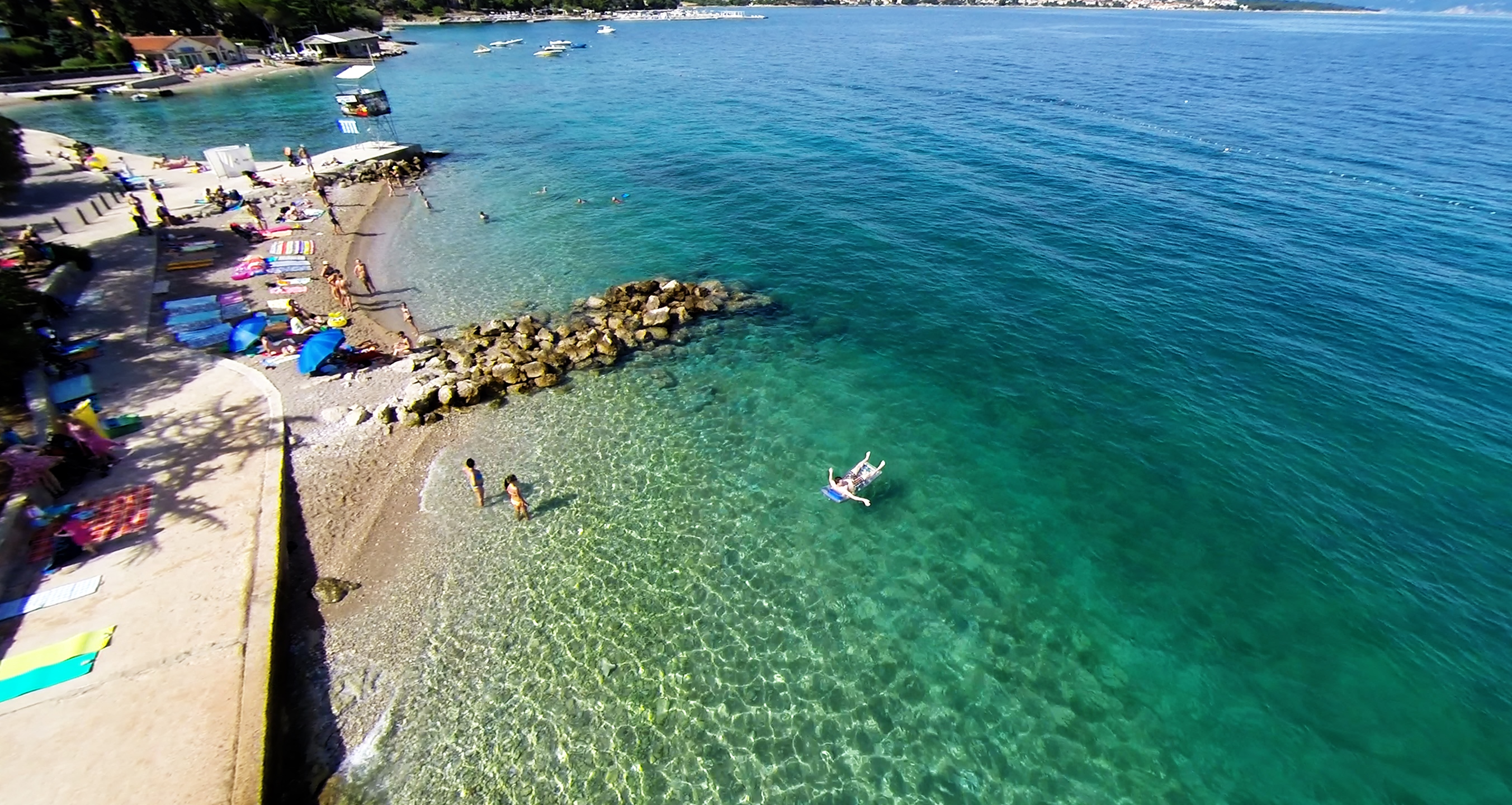 Rupa Beach from the air.